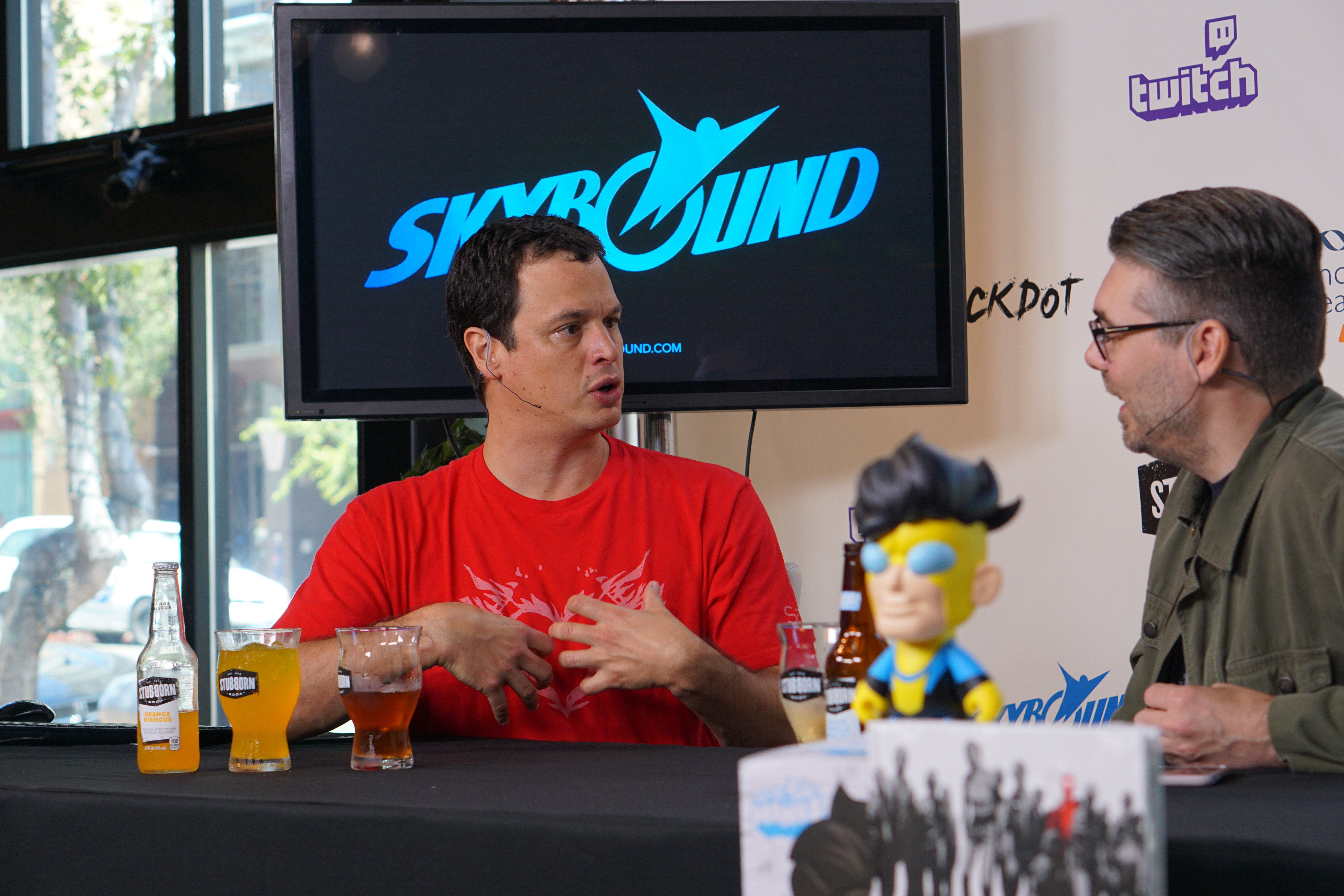 Skybound CEO